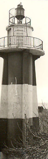 Jaffa Light 1980